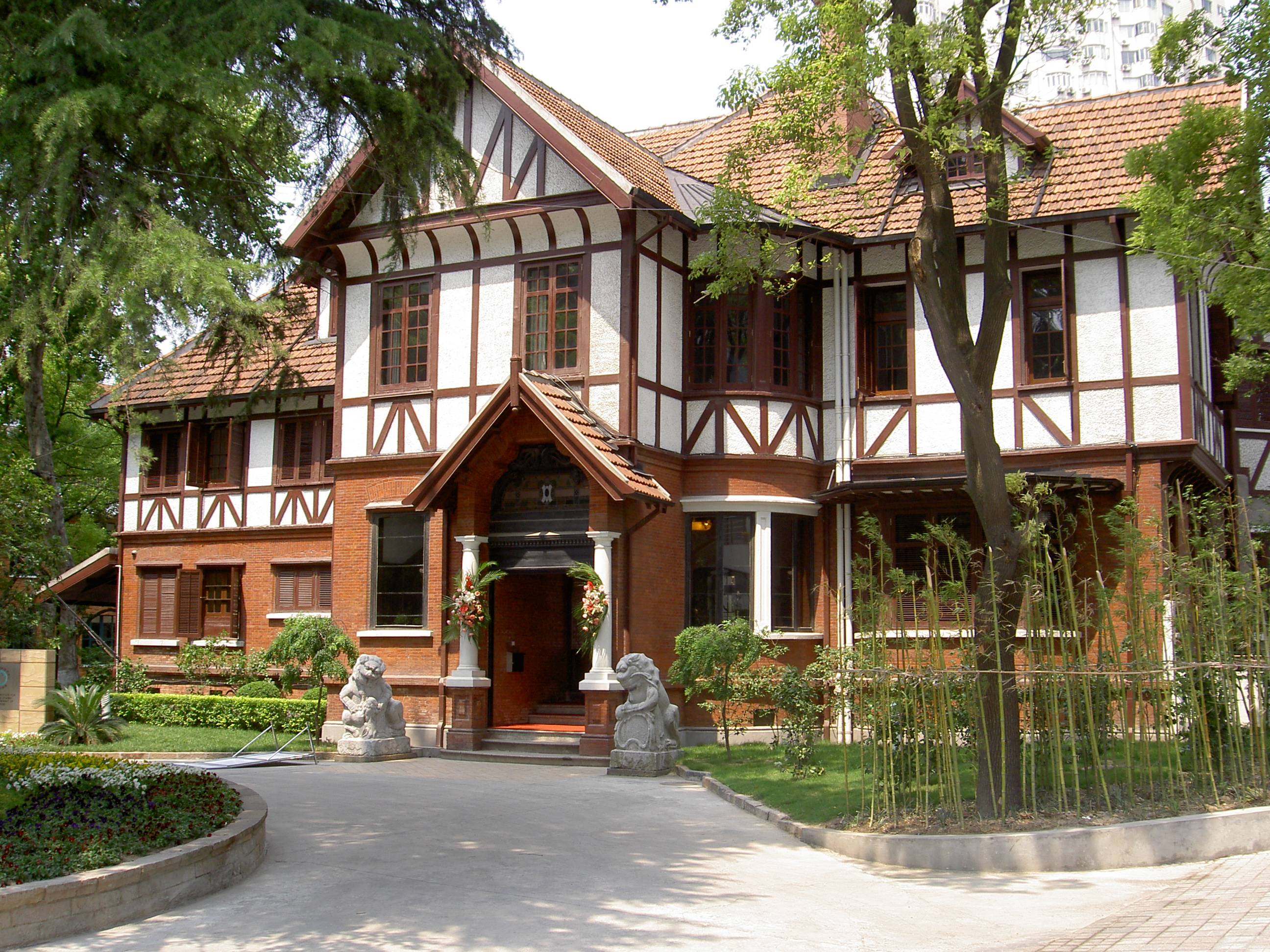 The Shanghai Institute for Advanced Studies, Shanghai, China. Former consulate of France.